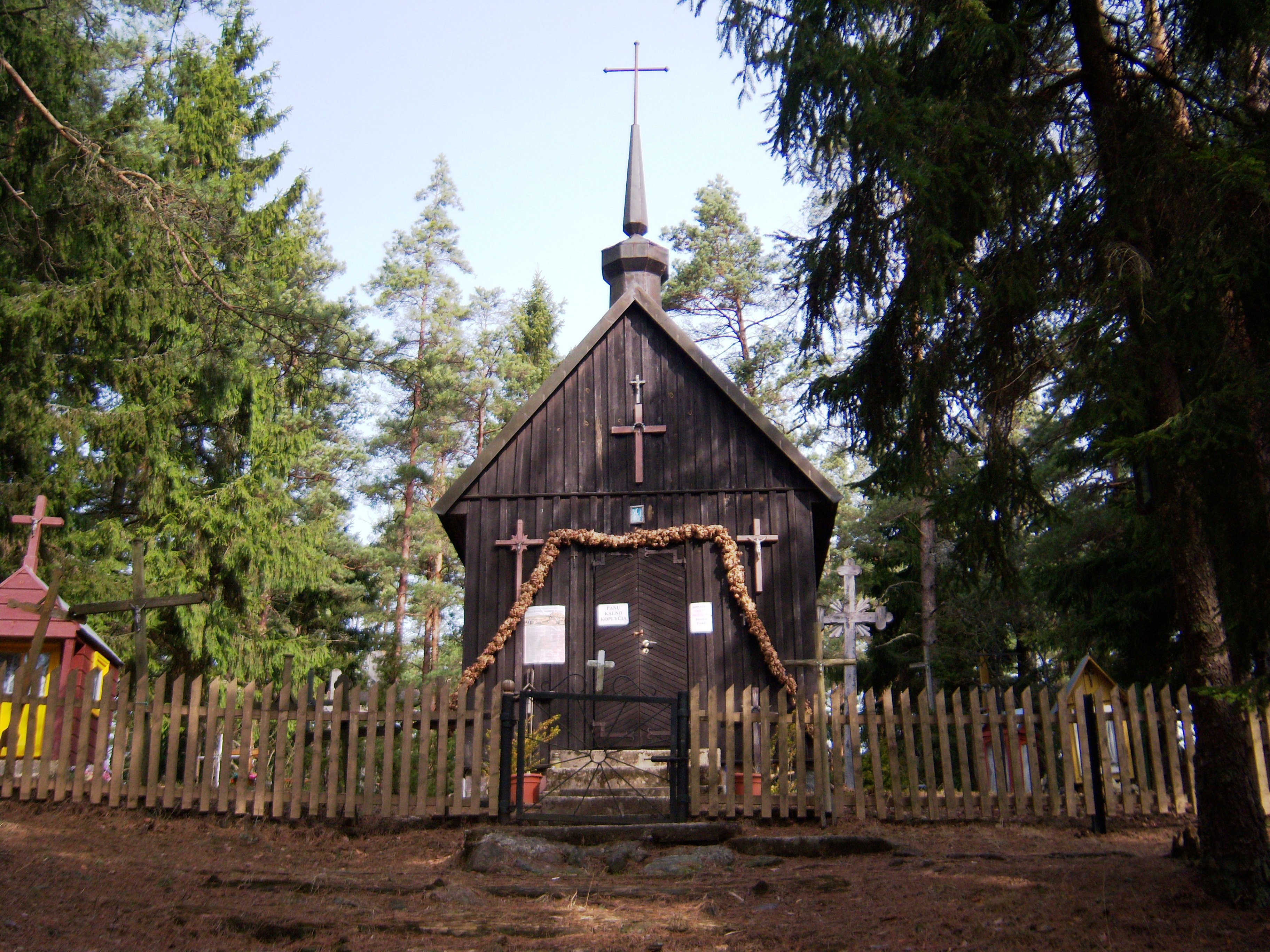 Chapel on Panų kalnas (hill), Telšiai district, Lithuania